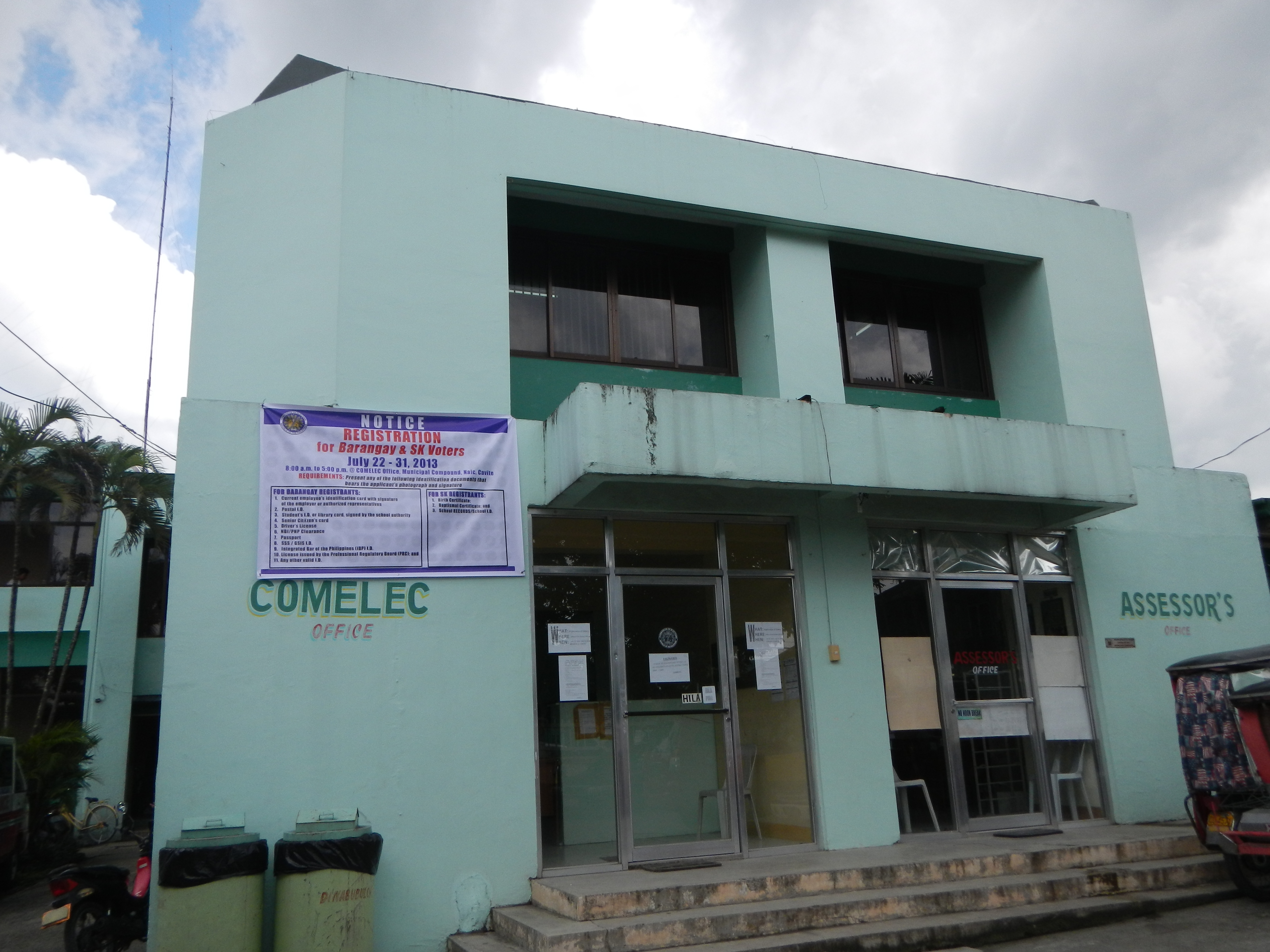 Municipal Town Hall Complex of Naic, Cavite which includes the Sangguniang Bayan and its Session Hall, the Town Hall of Naic, its Mayor's Office, and other Municipal Offices including the Naic PNP or Police station in Barangay Ibayo -- very near the --- Junction, Crossing, the USAFFE, Col. Esteban Taparans Guerilla Unit, World War II Veterans and Heroes of Naic Monument, Memorial, Veterans Federation of the Philippines---beside the Municipal Buidling, Barangays Ibayo (Estacion Ibayo Silangan) a A. Soriano Highway[1] Intersection - The westernmost part of the highway before turning southward. Right goes to Tanza, all the way up to Kawit via A. Soriano Highway. Heading stright goes to Naic Town Proper. Turning left goes to Maragondon and Ternate and is the continuation of Governor's Drive.[2]) gateway beside its neighbor Barangay Sabang, the home of Philippine Racing Club, Incorporated's "Saddle & Clubs Leisure Park" in Naic, the new Santa Ana ParkSanta Ana Park (since 1937) 65-hectare racecourse 40th PCSO Presidential Gold Cup --- Naic, Cavite[3] is a first class municipality in the province of Cavite, [4] Philippines. It is just 47 km away from the city of Manila. According to the 2010 census, it has a population of 88,144 people in a land area of 76.24 square kilometers. [5] Coordinates: 14°17'39"N 120°47'57"E [6]G eographical location: Cavite, Region 4, Philippines, Asia geographical coordinates: 14° 19' 13" North, 120° 46' 3" East This place is situated in Cavite, Region 4, Philippines, its geographical coordinates are 14° 19' 13" North, 120° 46' 3" East and its original name (with diacritics) is Naic. [7] [8]